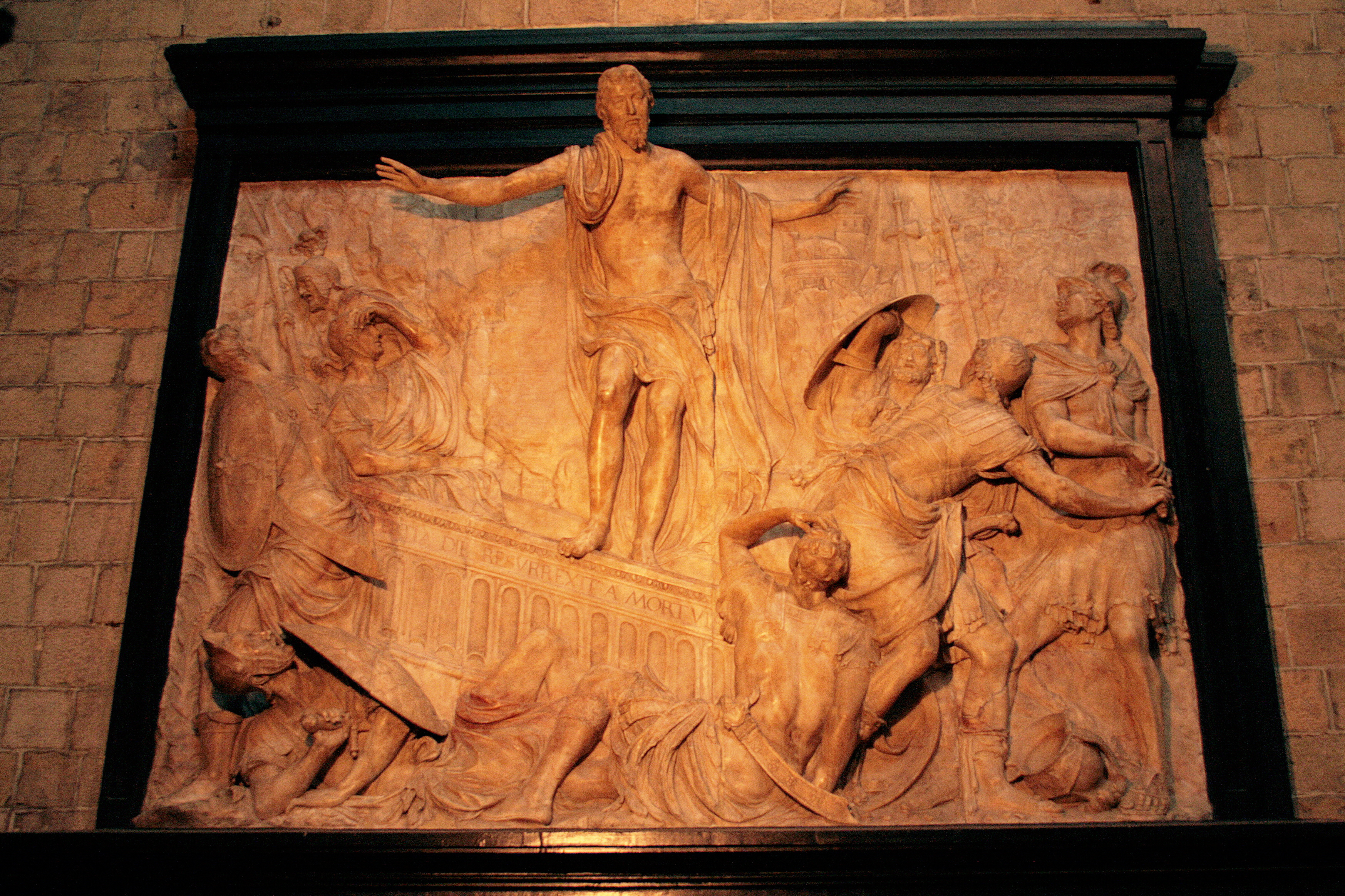 Relief of the Resurrection. – Part of the former rood screen performed by Jacques Du Broeucq between 1541 et 1545 for the Saint Waltrude collegiate church of Mons.